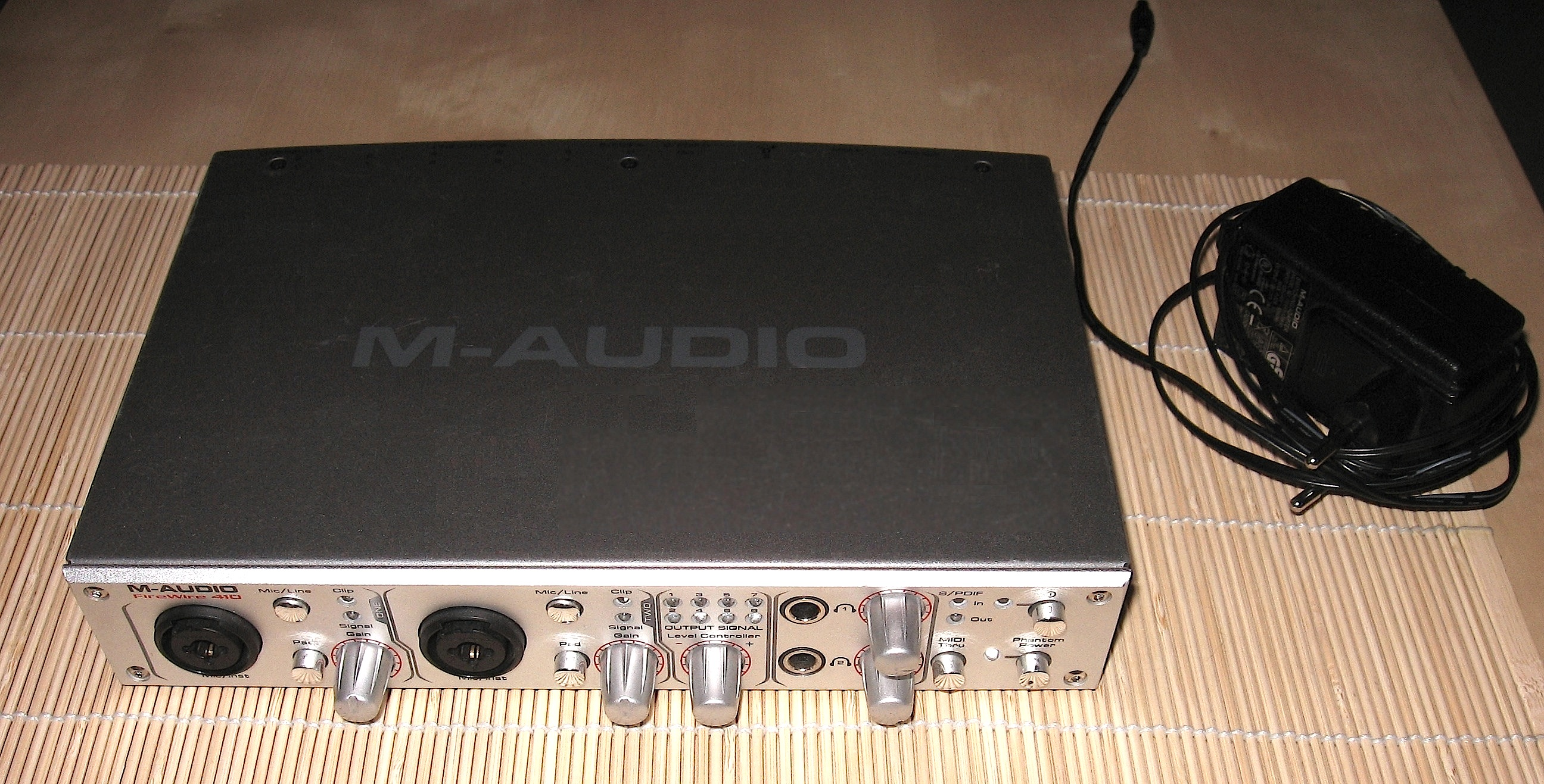 M-Audio Firewire 410 - top (4in/10out FireWire Mobile Recording I/F)